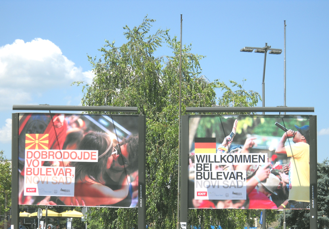 Welcome to Bulevar - billboards in Macedonian and German language in Bulevar neighborhood of Novi Sad, Serbia, posted during EXIT 2010 music festival.